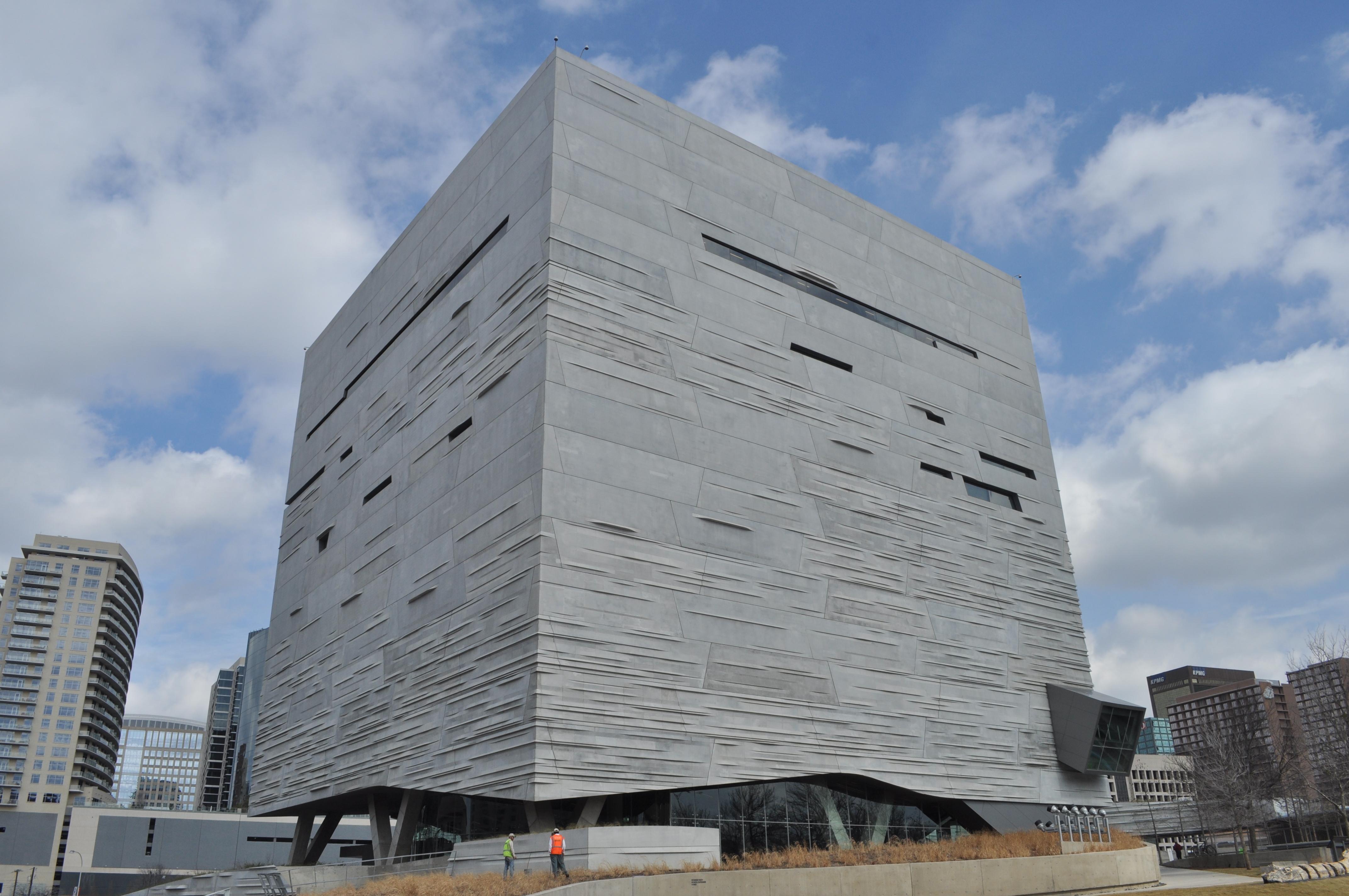 Perot Museum of Nature and Science, Dallas, Texas.